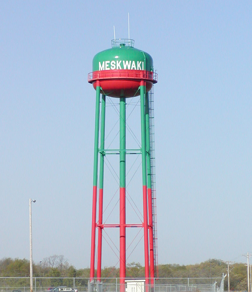 Water tower, Meskwaki Settlement, Tama County, Iowa. Billwhittaker (talk) 18:13, 8 January 2009 (UTC)